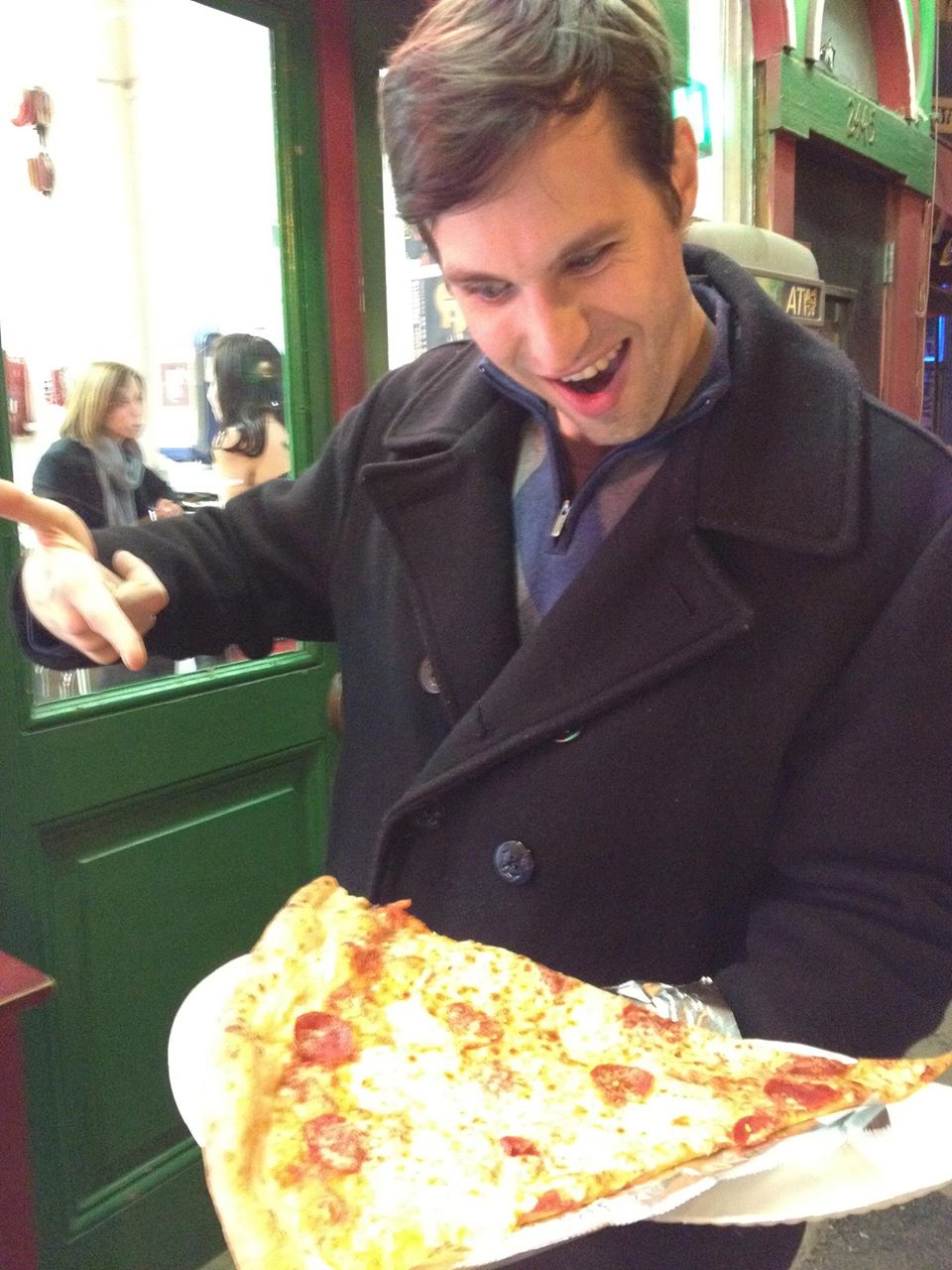 A young man in Adams Morgan marvels at the size of the jumbo slice pizza he is about to consume.